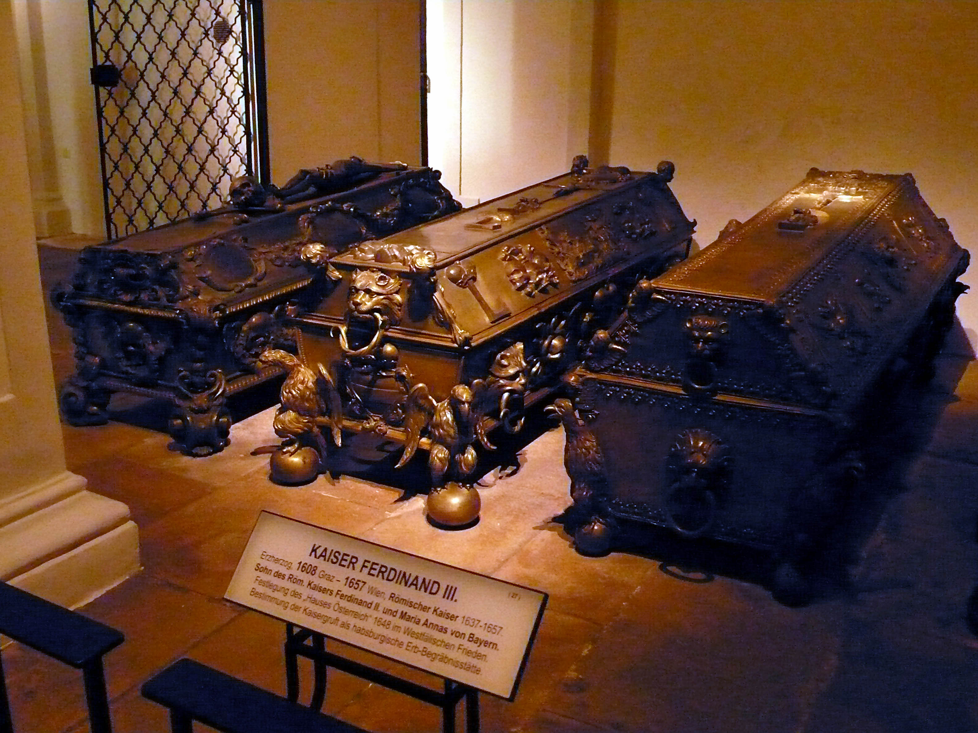 Austria, Vienna, Capuchin Church, Imperial Crypt